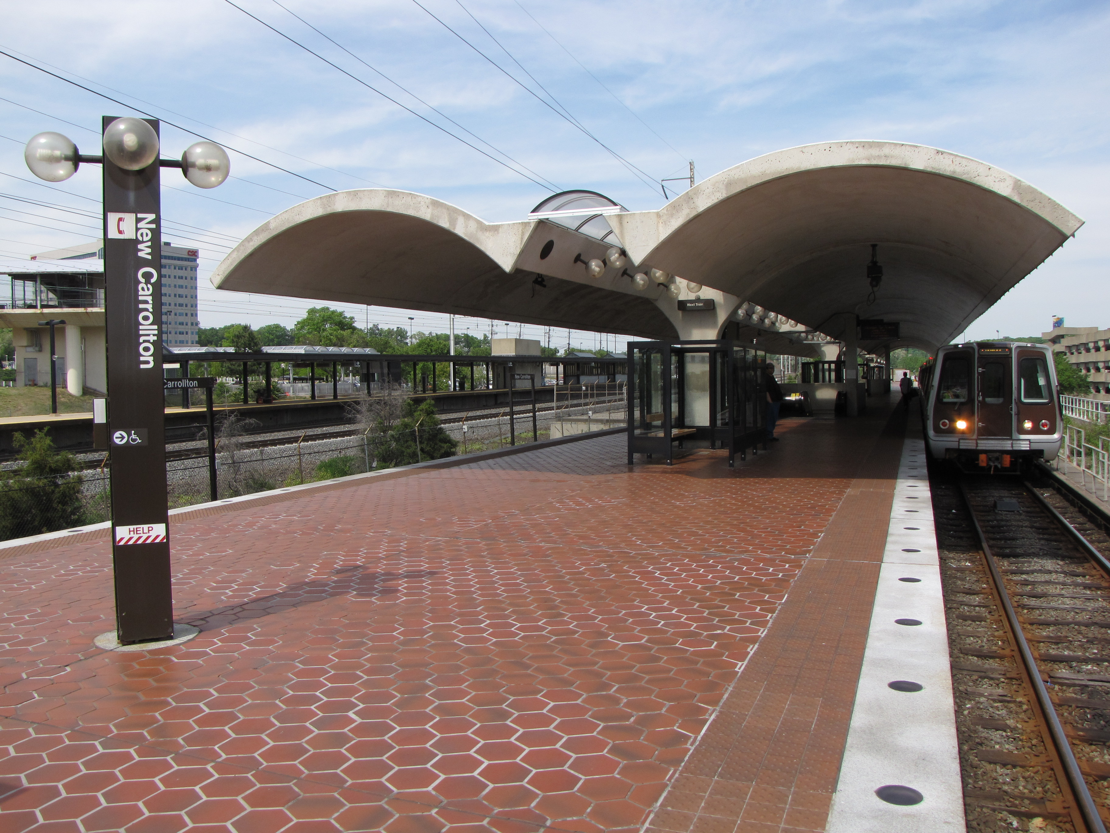 Inbound end of the platform at New Carrollton, a station on the Orange Line of the Washington Metro. A train headed by Alstom 6104 is servicing the platform from the outbound track.